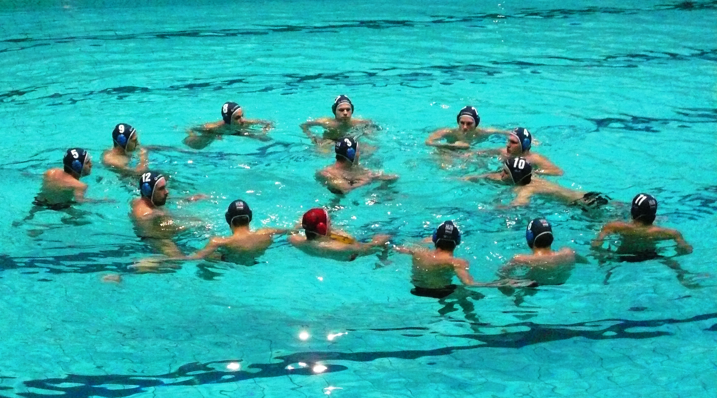 Junior national team of Hungary. Eger, Aladar Bitskey pool.